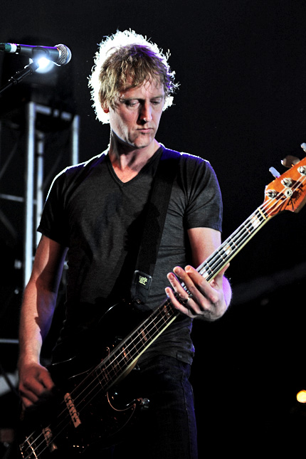 Swervedriver bass player performing at Beck's Music Box February 2, 2011 as part of Perth International Arts Festival in Australia.